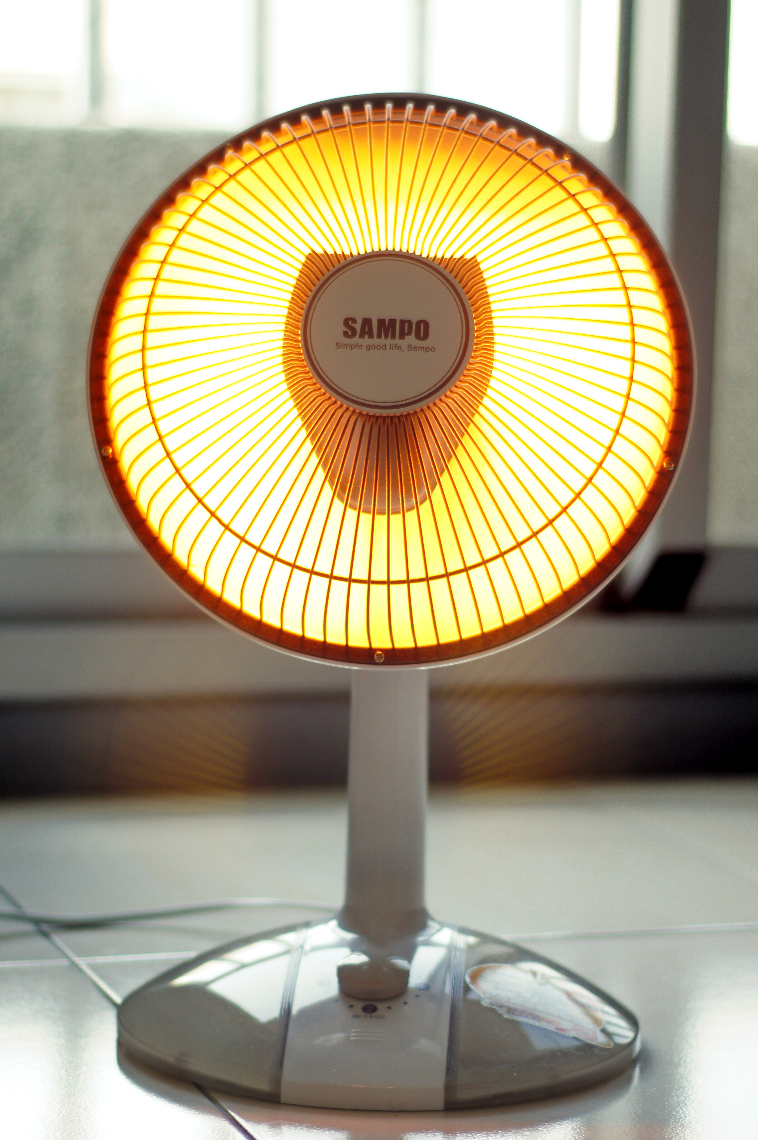 Halogen Heater, Sampo HX-FA10F